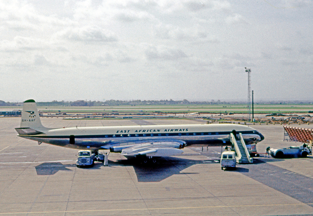 DH.106 Comet 4 5H-AAF of East African Airways at Heathrow in 1964